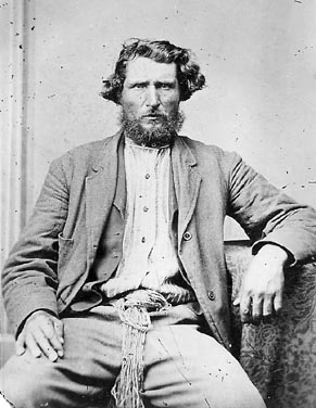 Ambroise-Dydime Lépine. Undated Tintype.